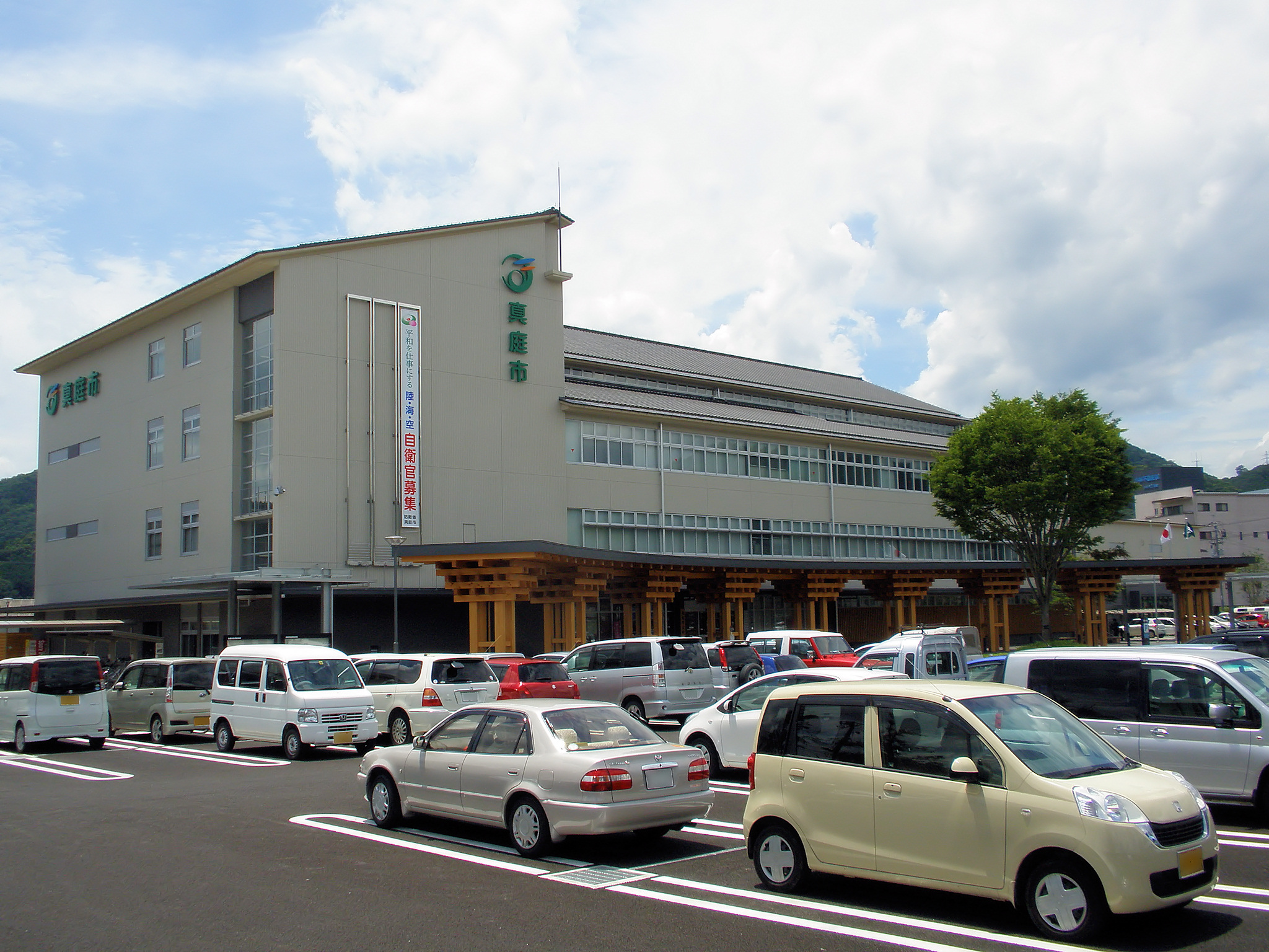 Maniwa city office (Since September 21, 2010)